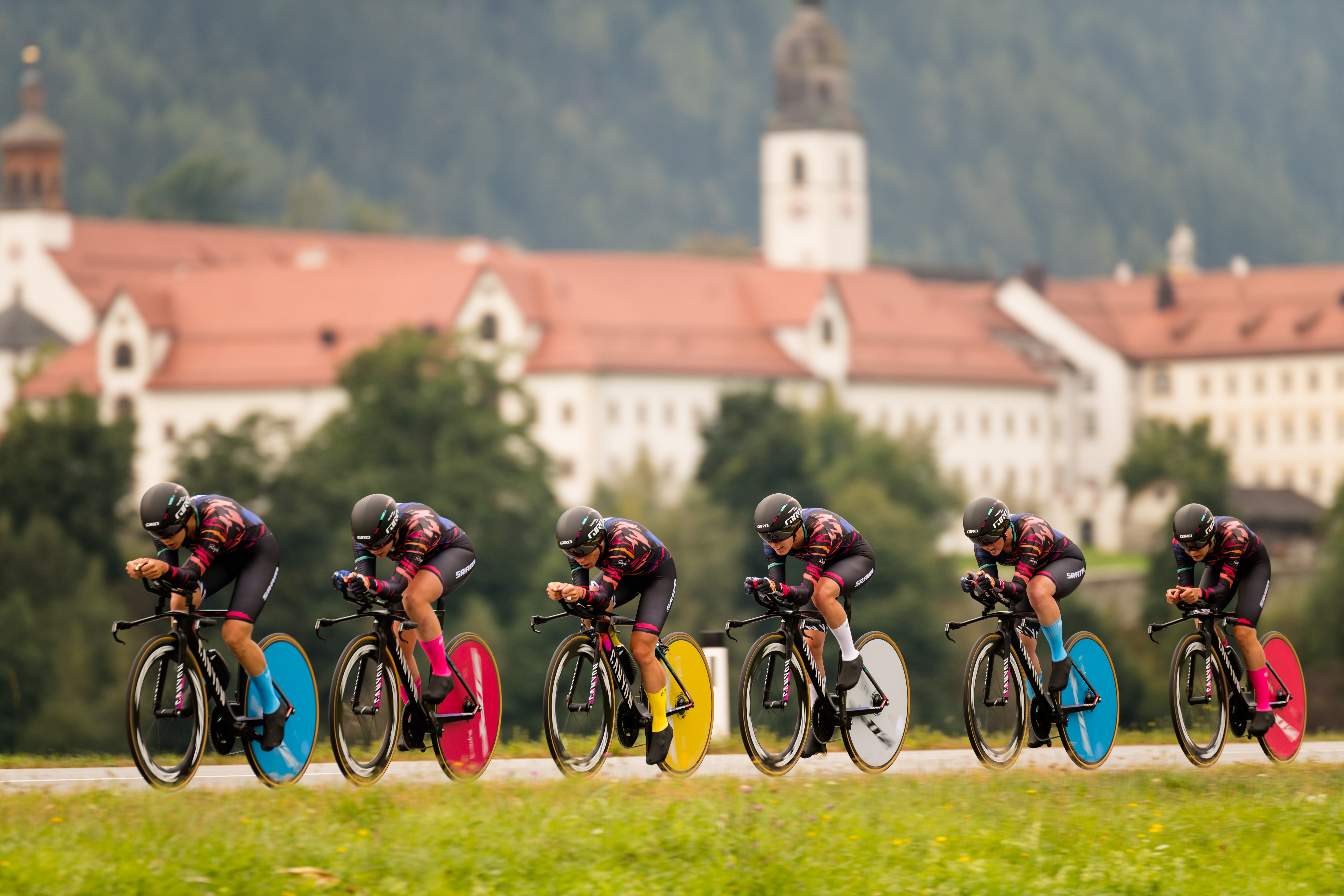 2018 UCI Road World Championships Innsbruck/Tirol Women's Team Time Trial. Picture shows: Alena Amialiusik, Alice Barnes, Elena Cecchini, Lisa Klein and Trixi Worrack of Team Canyon SRAM Racing